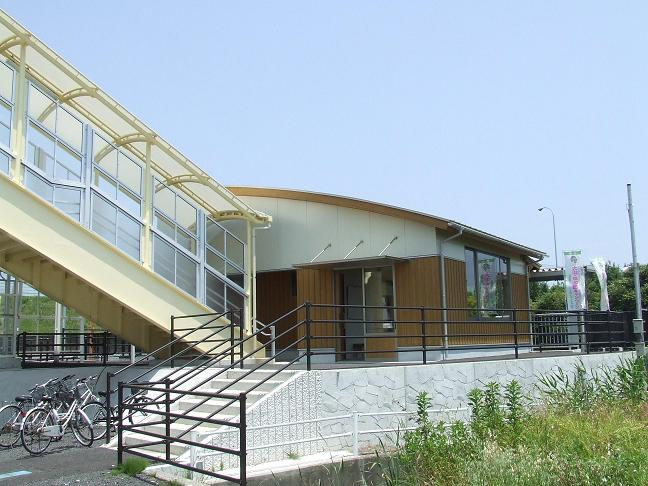 Building of Yonago-Airport Station on JR Sakai Line